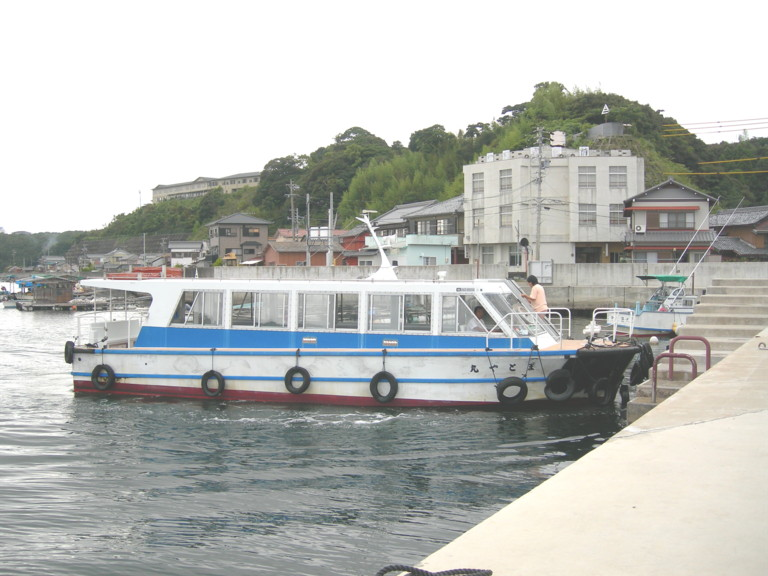 Matoya maru, the ship operated on the sea section of the Mie Prefectural Road Route 750, at the Matoya Wharf